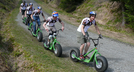 Monsterroller in Action